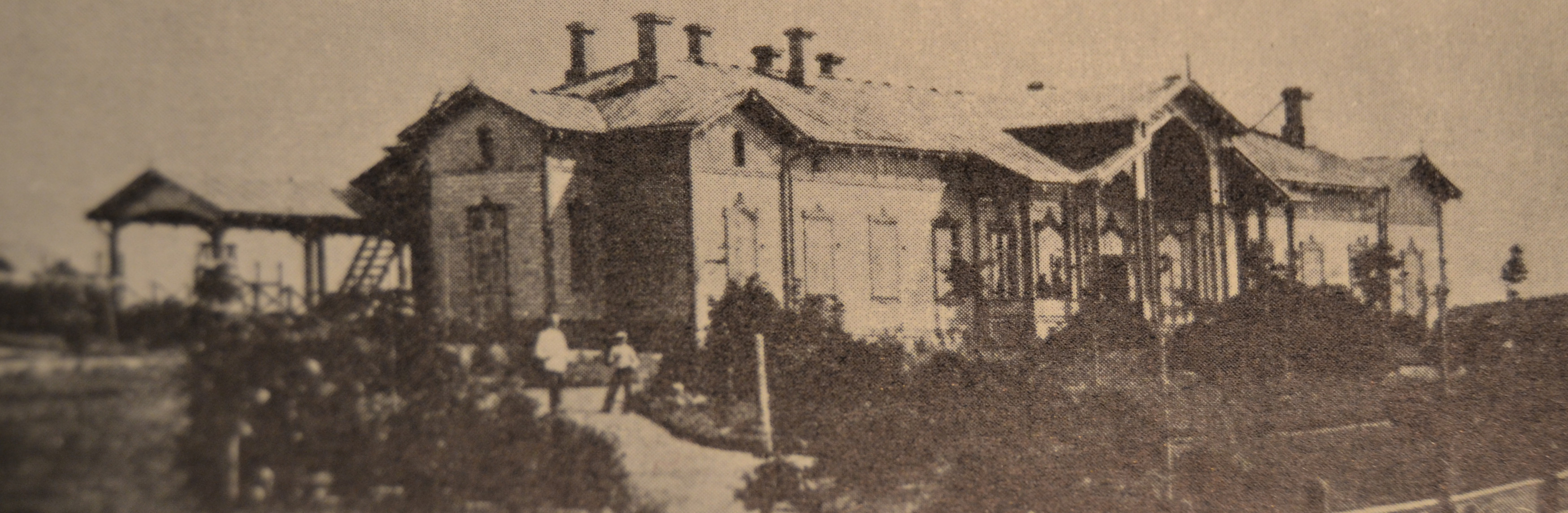 Tampere old railway station in Finland